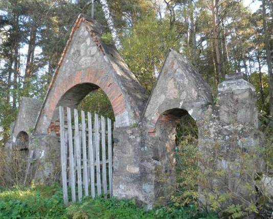 Gate of the Catholic cemetery in Koran' village in Lahojsk district of Belarus